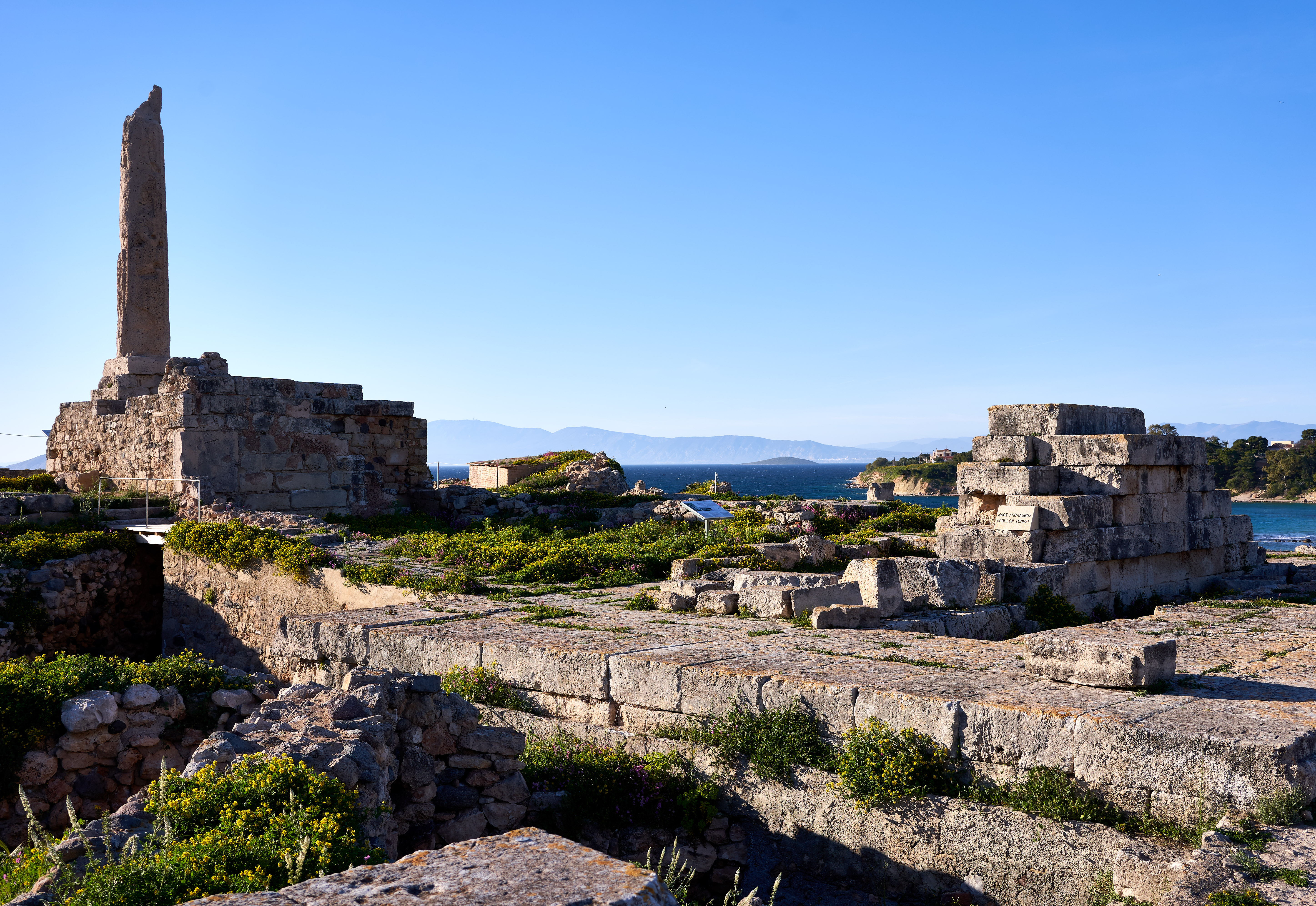 The ruins of the Temple of Apollo on Aegina island. Aegina, Greece.